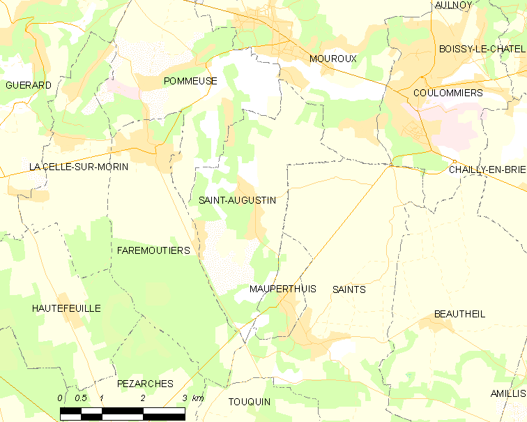 Map of French municipality Saint-Augustin